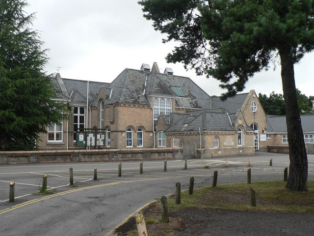 Talbot Village: St. Mark’s CE Aided Primary School This primary school stands in the leafy historical part of Talbot Village, a far cry from all around it. Talbot Village is named after the Talbot sisters, who were early landowners here.